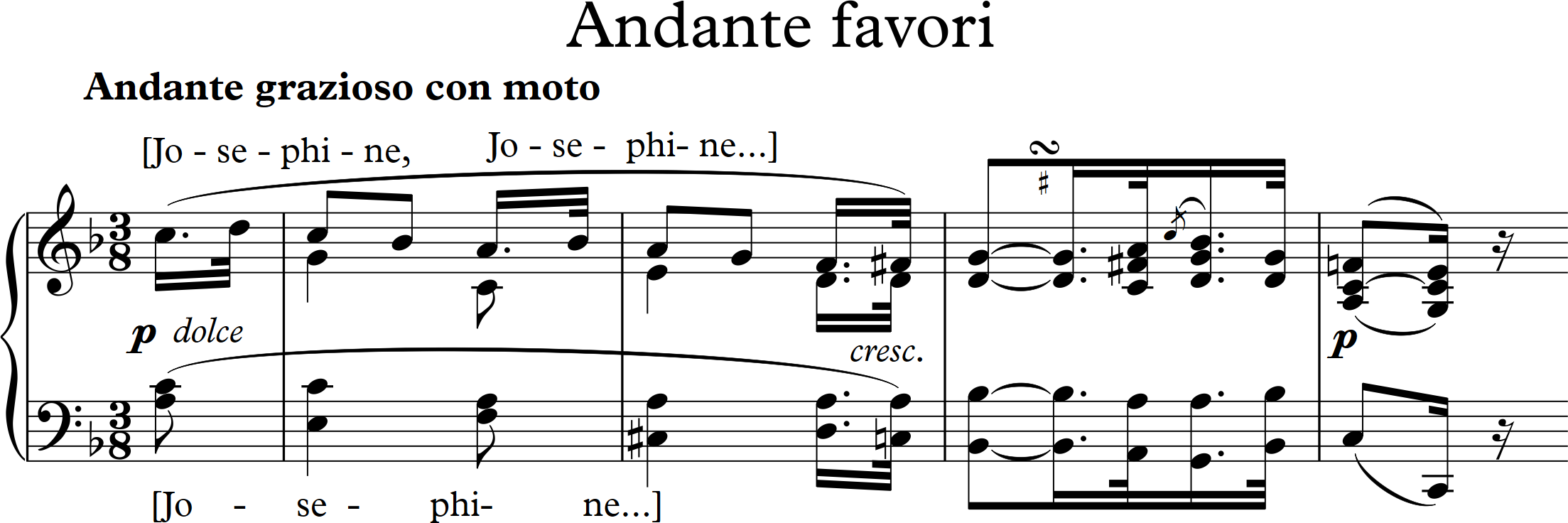 Music examples for the article "The Anatomy of Beethoven's 10th Violin Sonata"